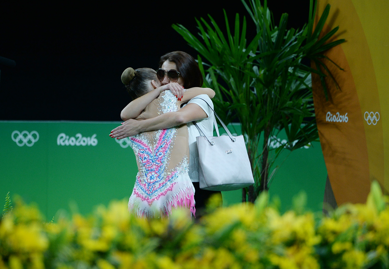 Rhythmic gymnastics at the 2016 Summer Olympics, Marina Durunda